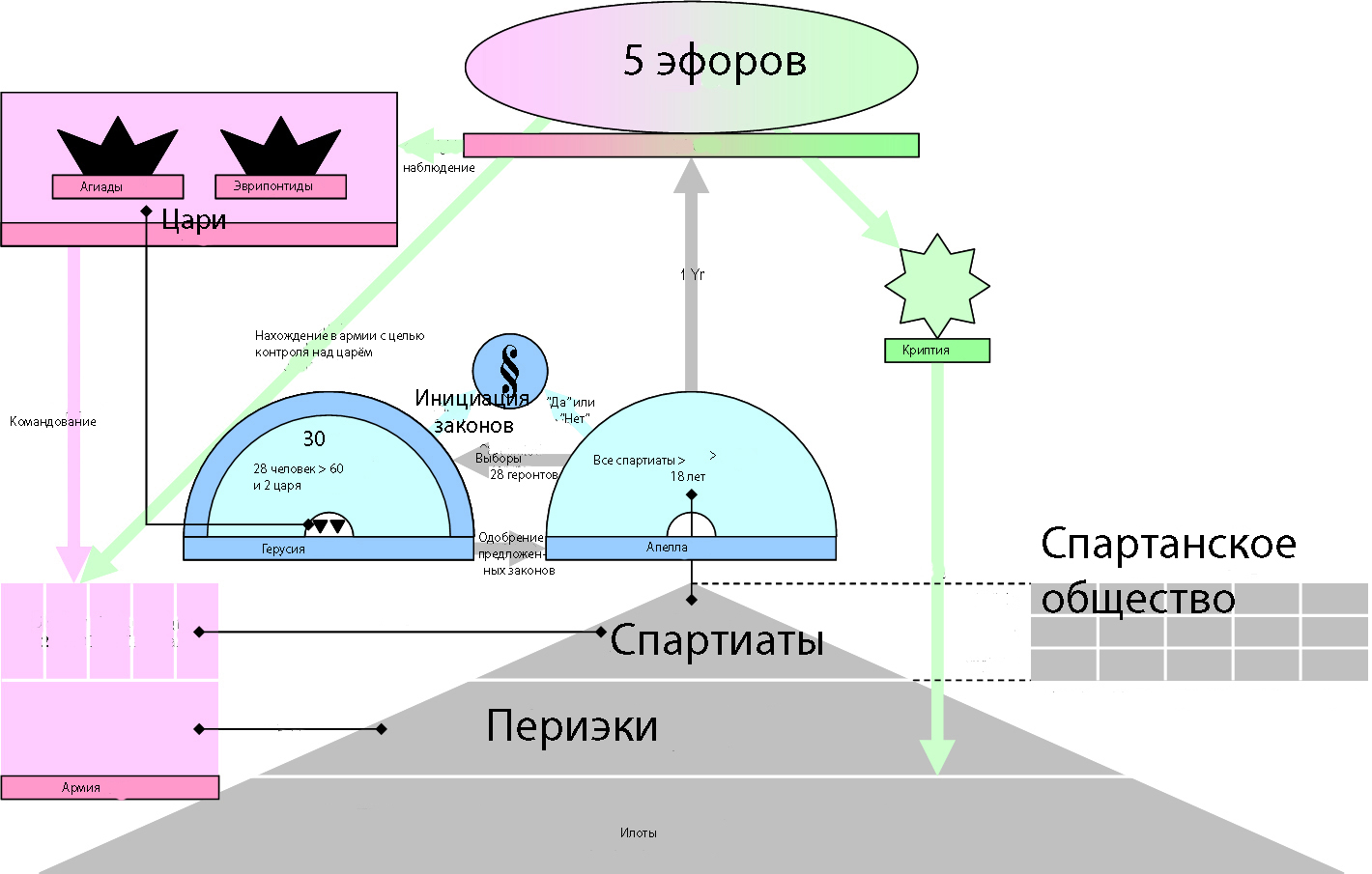 Ancient Sparta society. Scheme. Translated from File:SpartaGreatRhetra.png in russian